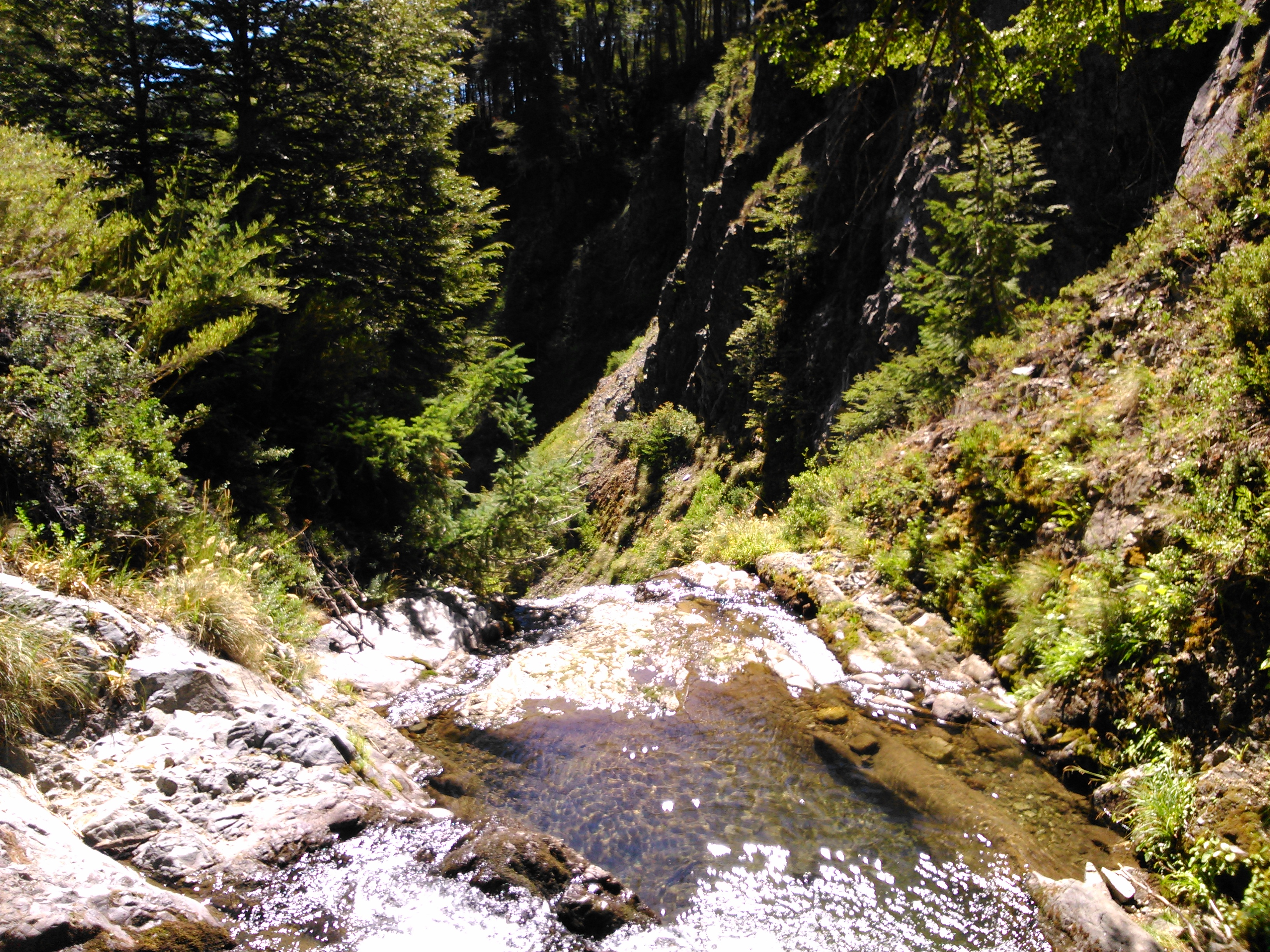 Mirador de Termas De Chillan